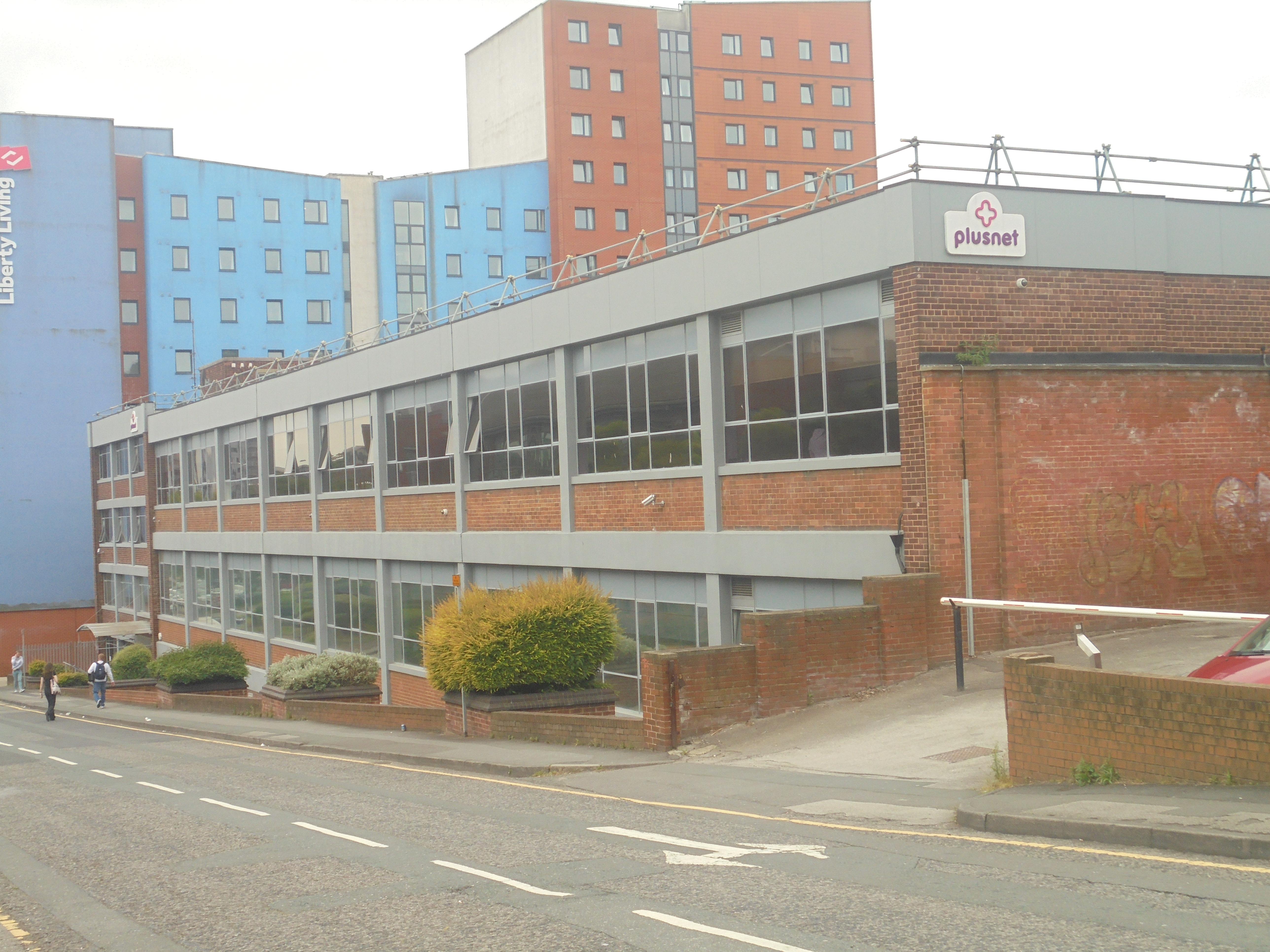 Plusnet, Marlborough Street, Burley, Leeds, West Yorkshire. Taken around midday of Tuesday the 29th of May 2018.